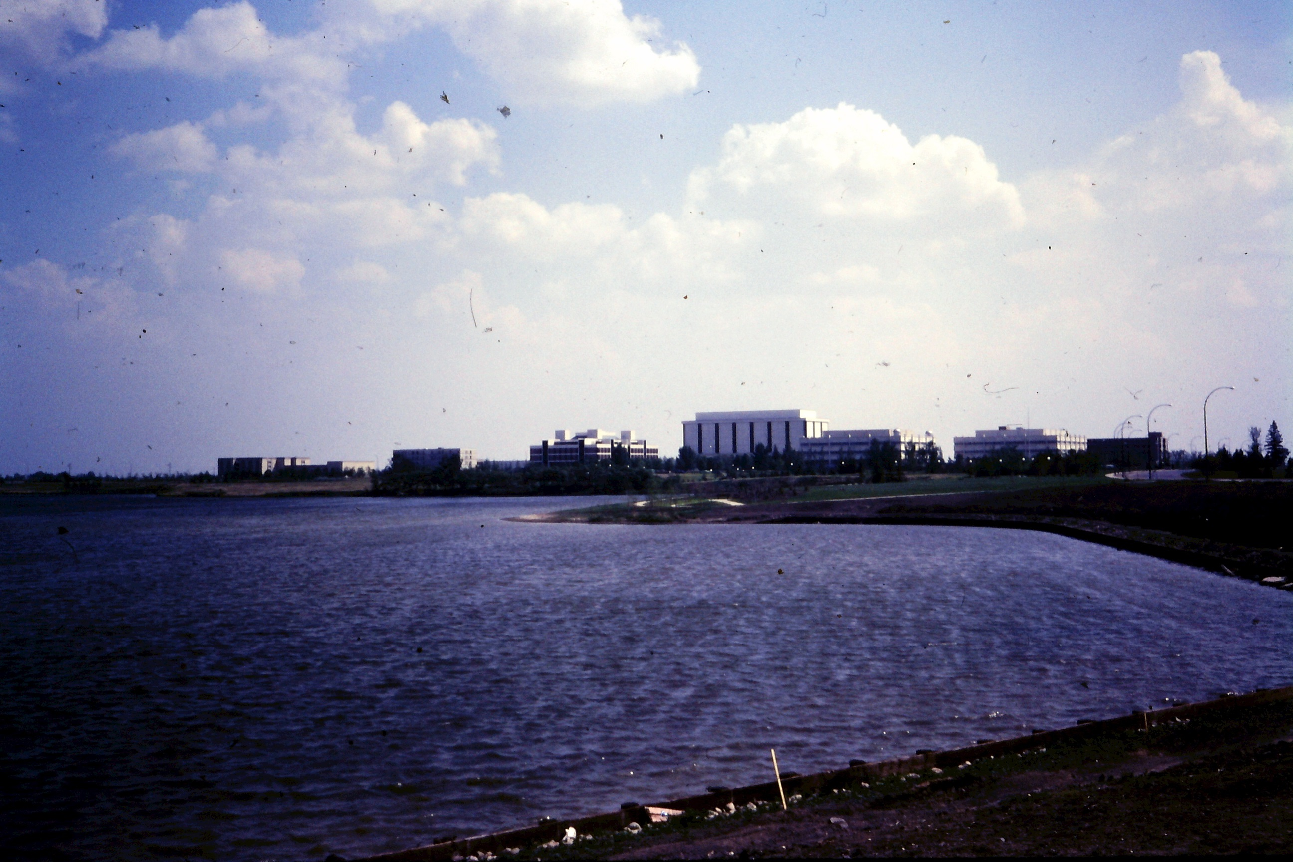 Regina Campus from Wascana Lake in the 70s